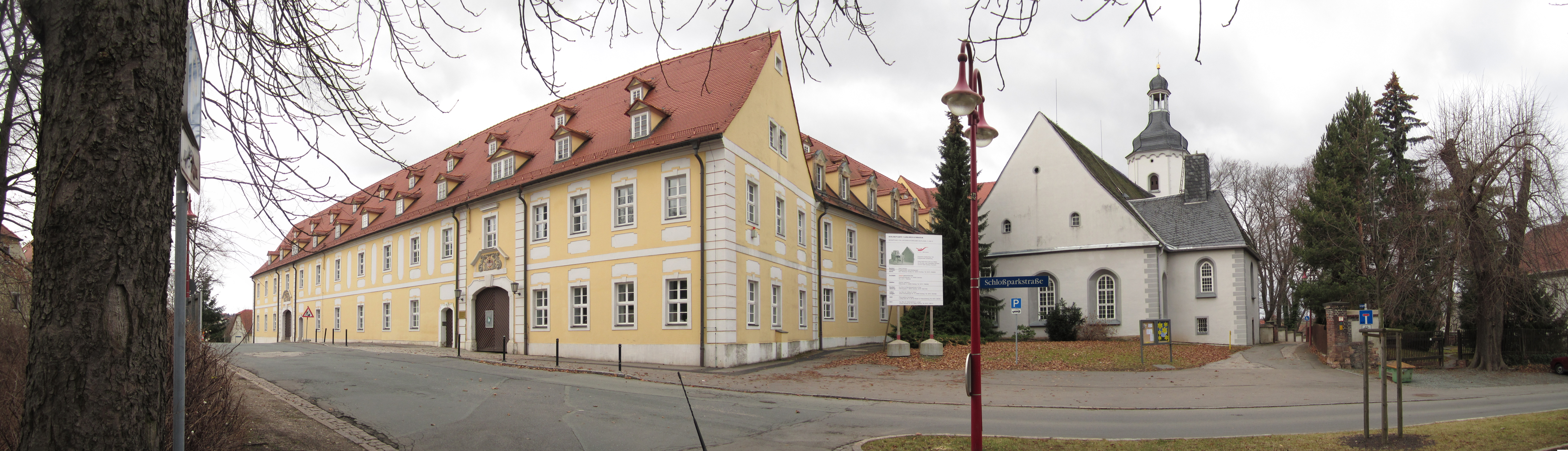 Panorama of Planitz castle in Niederplanitz, city of Zwickau, Saxony, Germany.